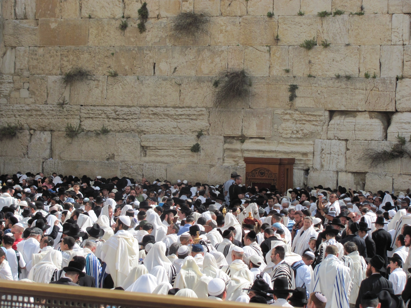 Prayers at the wall.